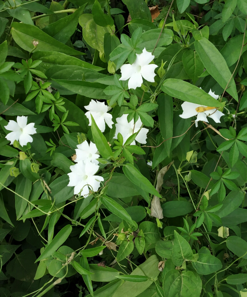 Small vine with five petalled white flowers, long leaves with 3 midribs running along each other. Native to South Asia.